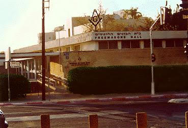 The old Freemasons Hall in Tel Aviv, Israel. Destroyed on May 2005